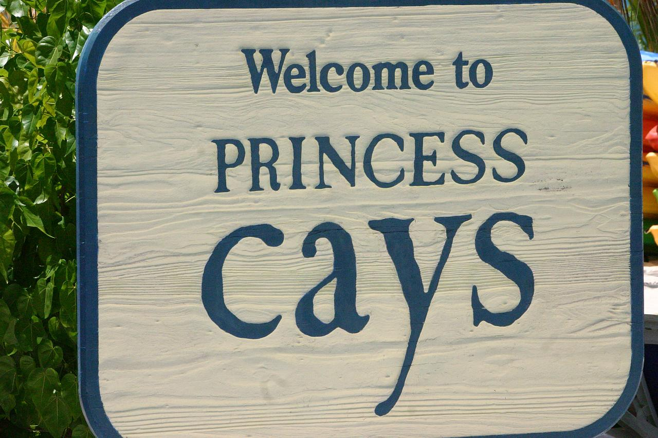 The sign welcoming visitors to Princess Cays.